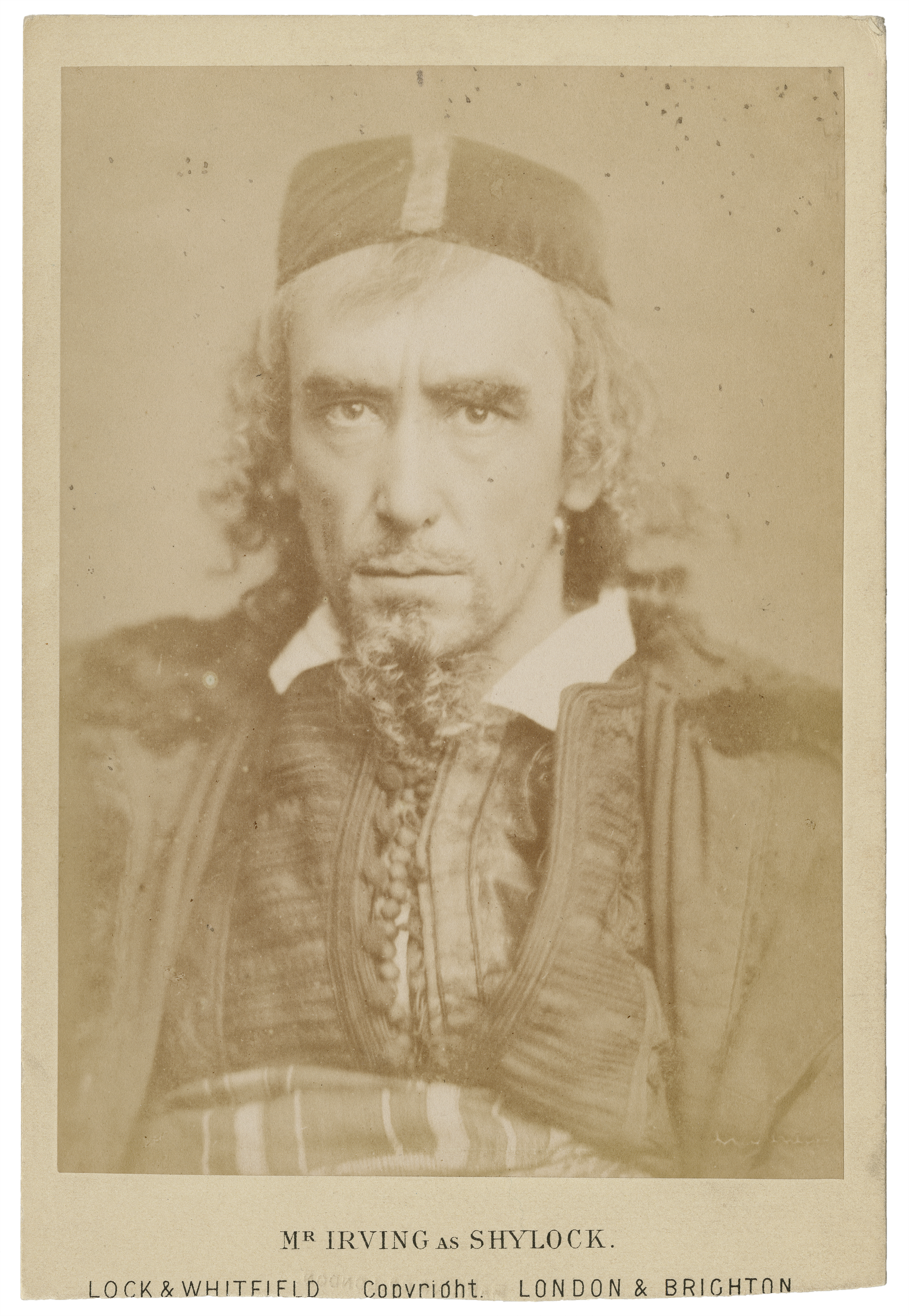 A photograph of Henry Irving as Shylock in a late 19th century performance of Shakespeare's Merchant of Venice.